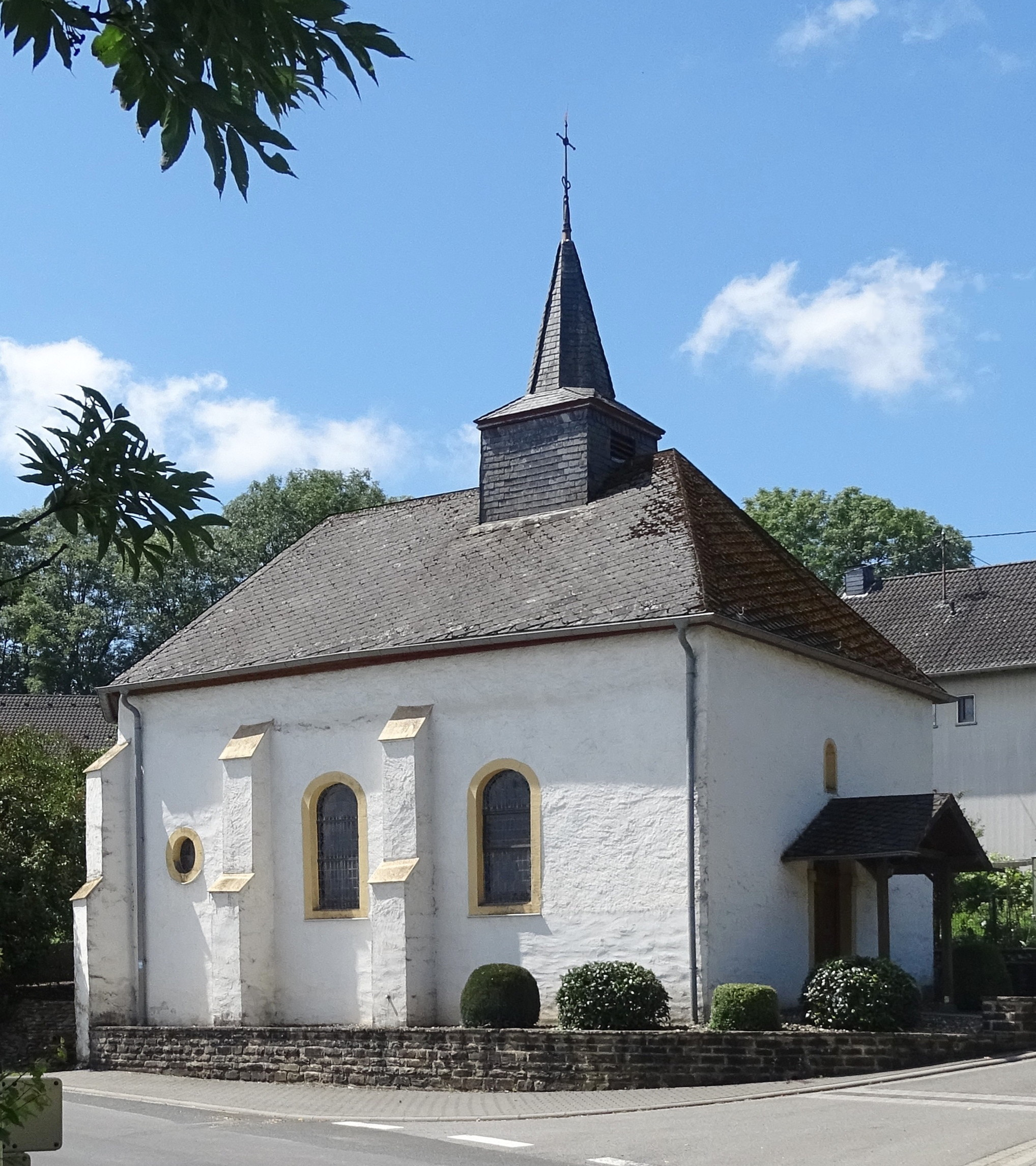 Catholic church of St. Maria in Nasingen, Dorfstraße 3. View from the Hauptstraße.